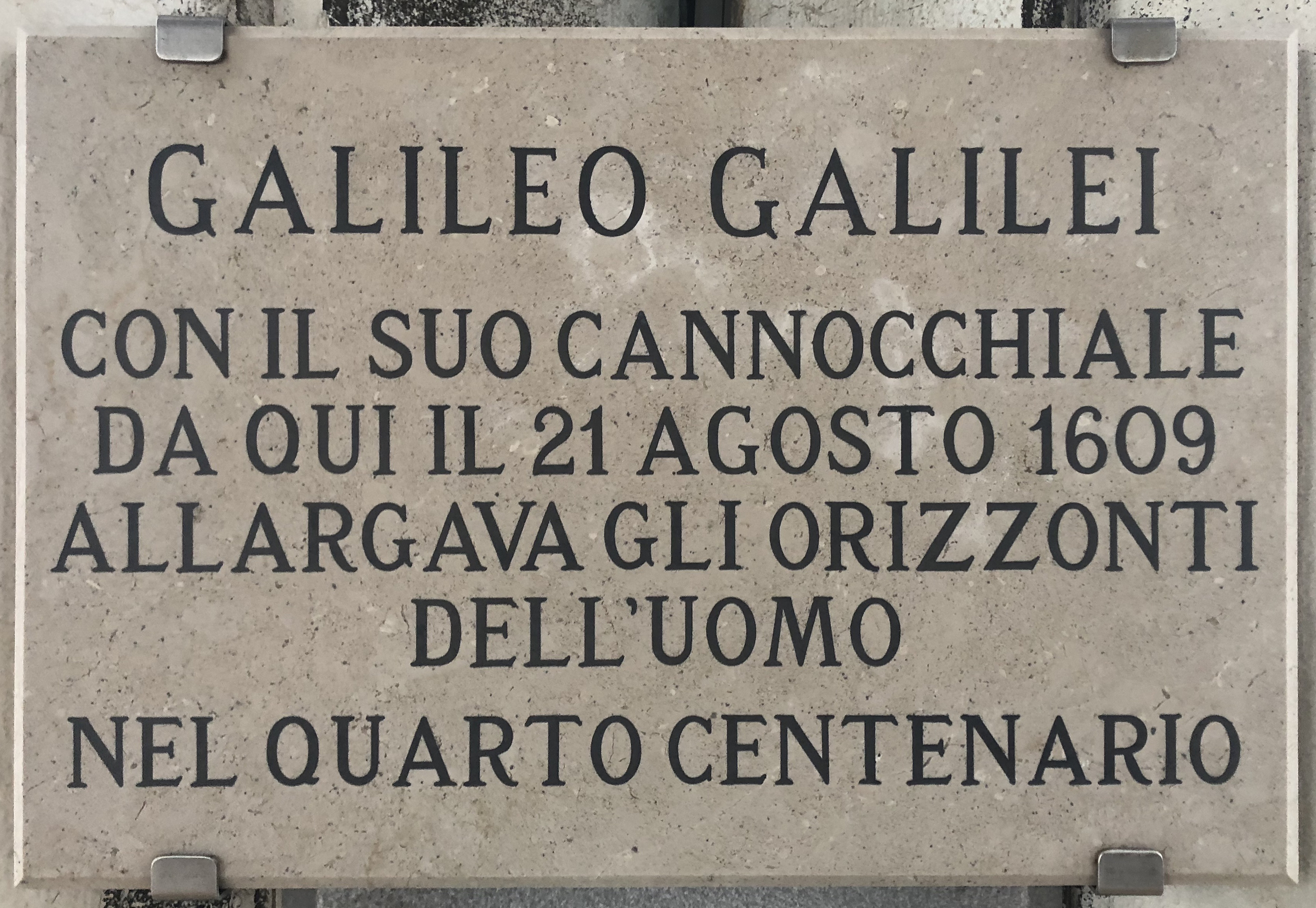 Inscription about Galileo Galilei on St Mark's Campanile. Galileo Galilei famously demonstrated his telescope to the Doge of Venice, Antonio Priuli, on 21 August 1609 from the Campanile.